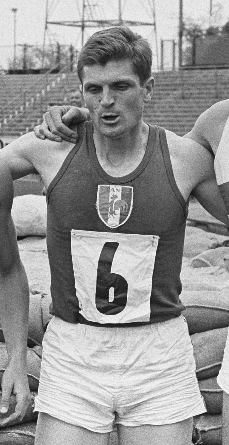 Zes Landen Atletiek (Six Countries Athletics) in Enschede. 100 meters: From left to right. Sergio Ottolina (Italy), Jocelyn Delecour (France) and Peter Gamper (Germany)